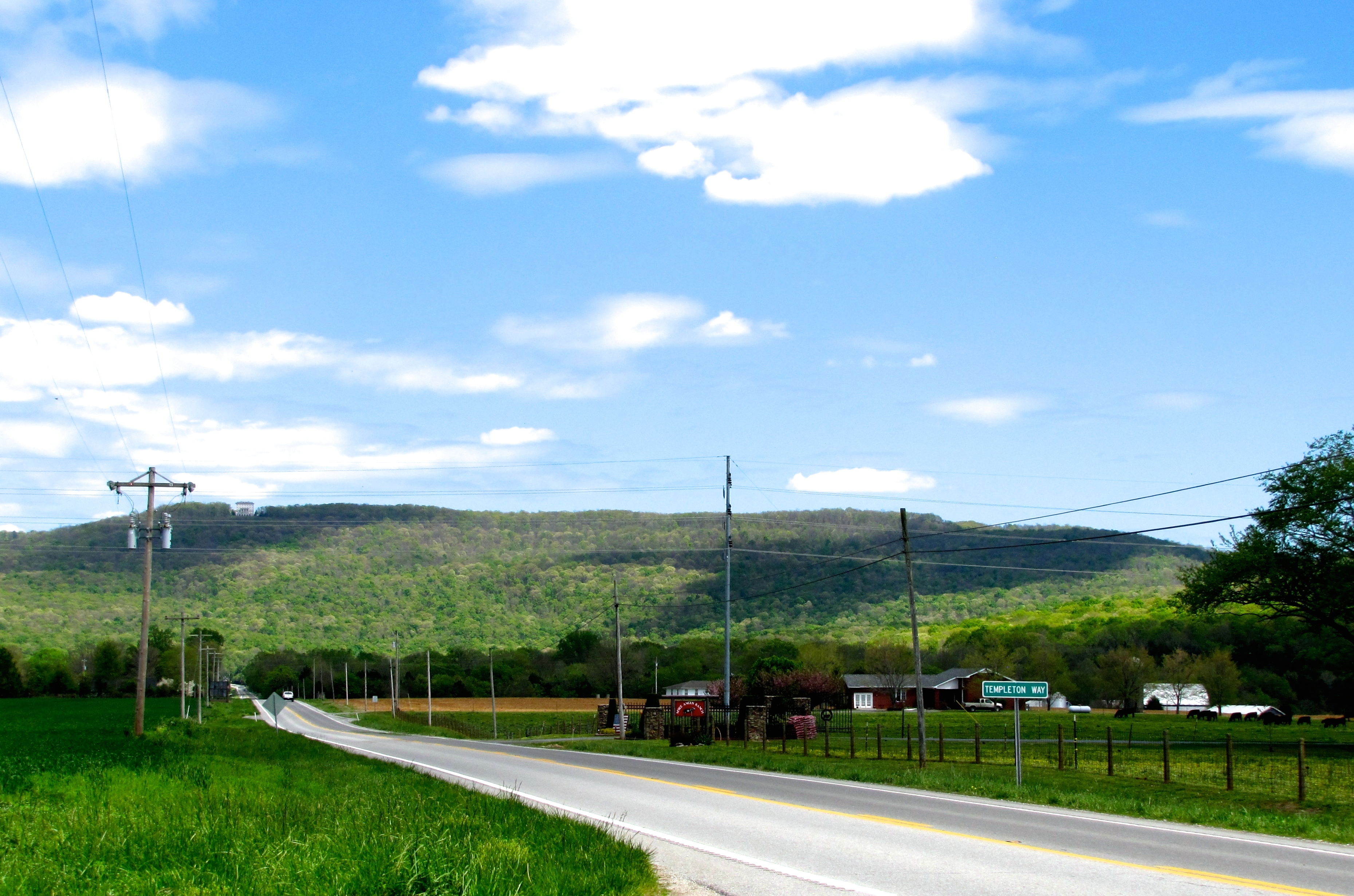 U.S. Route 41A approaching the Cumberland Plateau near Cowan in Franklin County, Tennessee, United States.